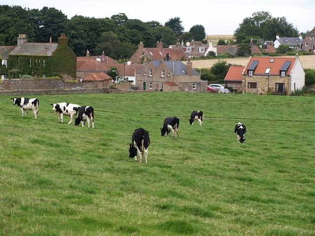 Boarhills. Taken from the same spot as 956021, looking across a field of cows to part of the village shown in 51952.